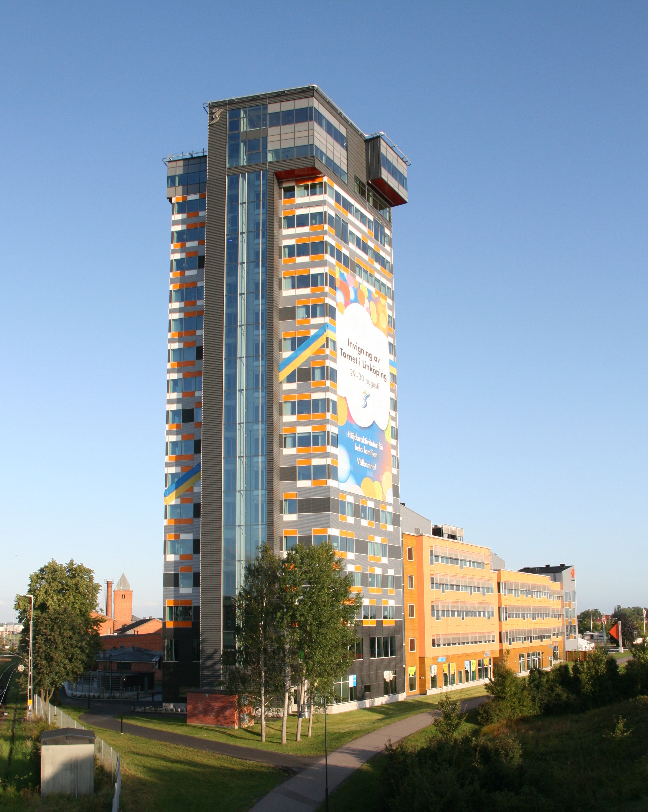 "Tornet" office building at Tornby, Linköping, Sweden. Supposedly the city's tallest office building. Seen from southeast, on the opening day August 29, 2009. Immediately to the left of this picture is the railroad (Stockholm-Malmö). To the left is a low brick tower, that was earlier called "tornet" (the tower).